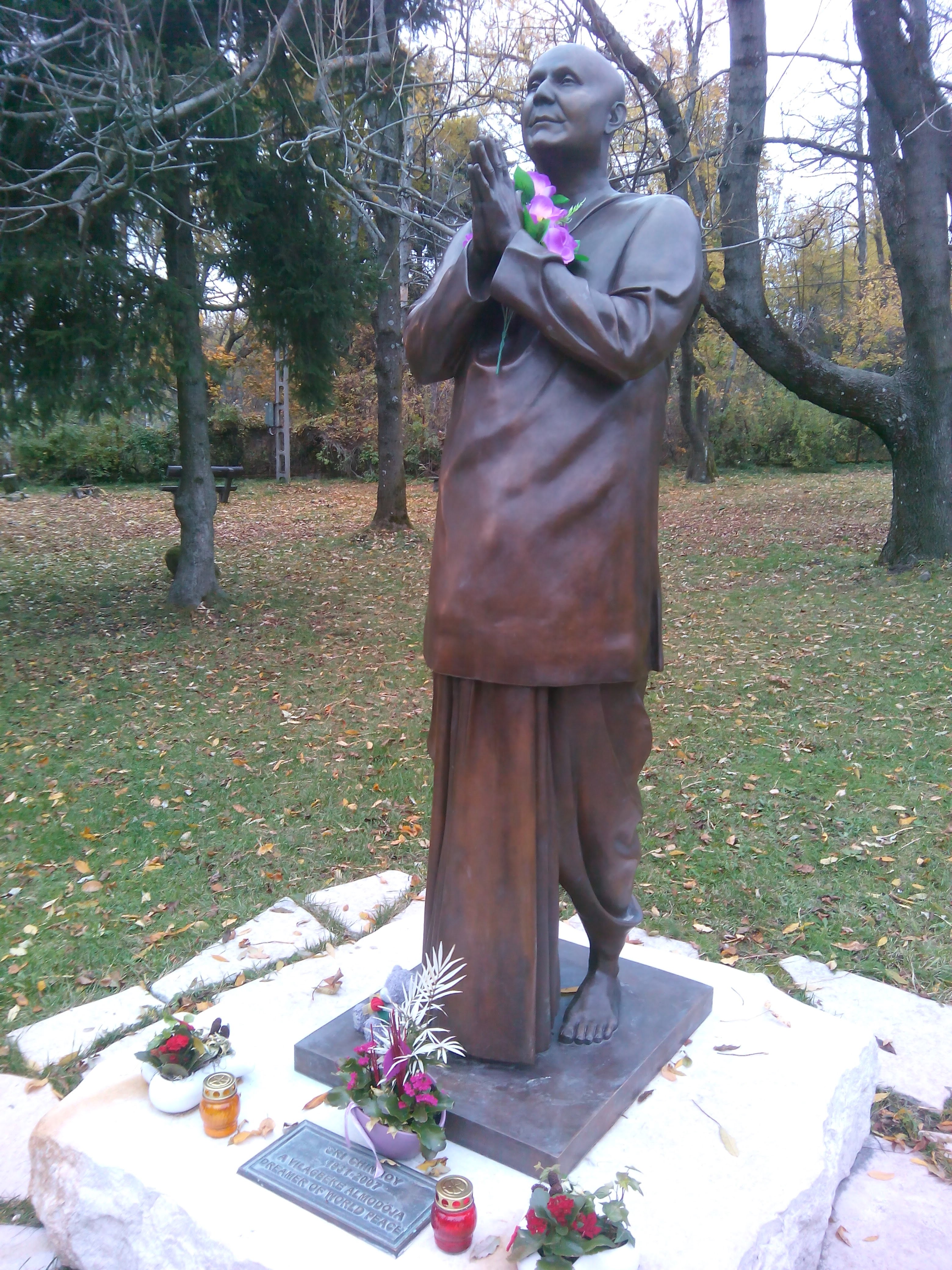 Statue of Sri Chinmoy in Dobogókőn, Hungary